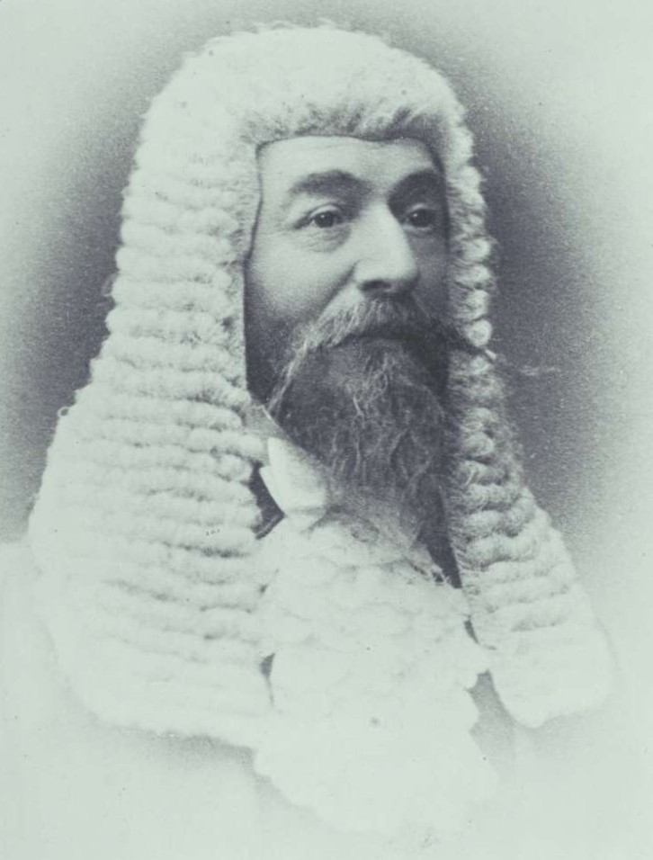 Francis Conway Mason, Speaker of the Victorian Legislative Assembly, as pictured in the 1898 Australasian Federal Convention Album.